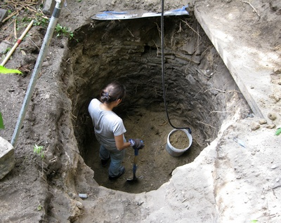 Historically excavating a stone-lined privy vault with The Manhattan Well Diggers (antique bottles and other items dating from 1840s-1870s).